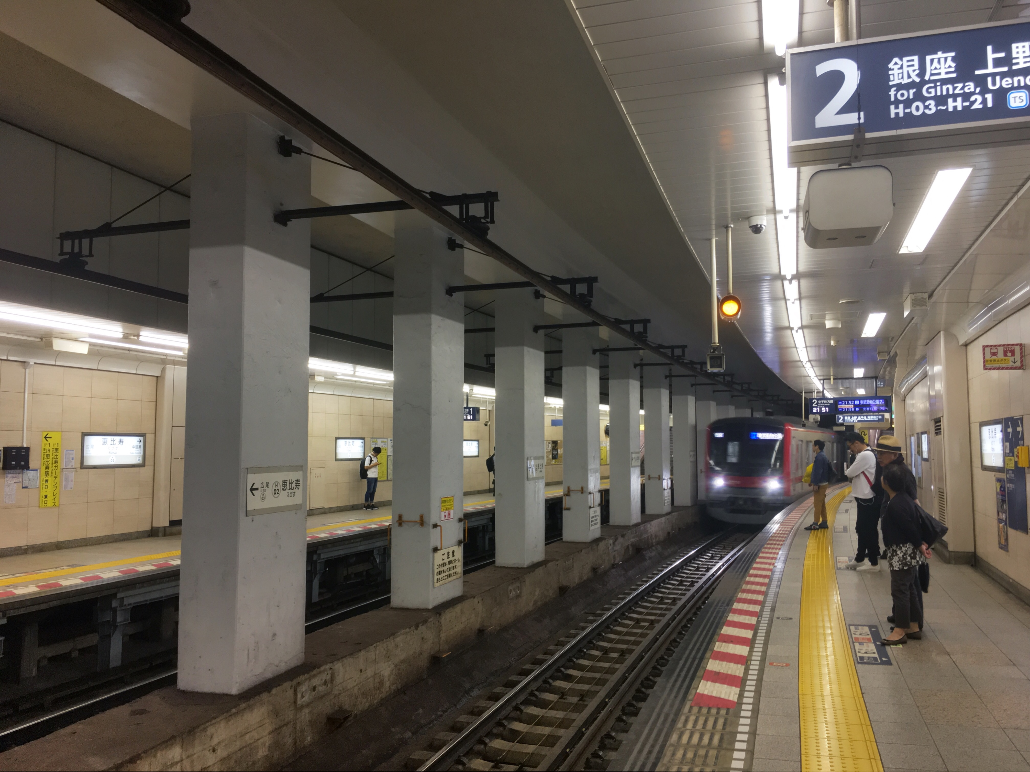 日比谷線、恵比寿駅のホーム (Hibiya Line, Ebisu Station platform)